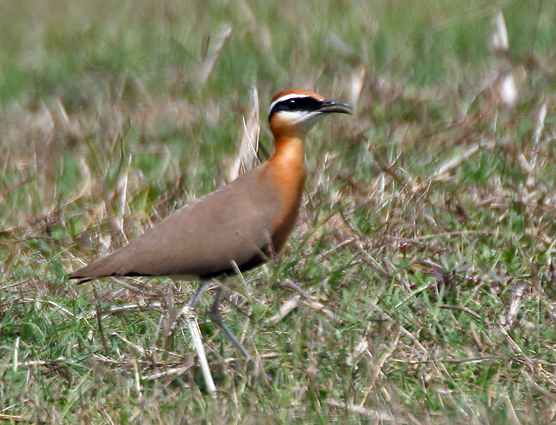 Indian Courser (Cursorius coromandelicus) at Keoladeo National Park, Bharatpur, Rajasthan, India.